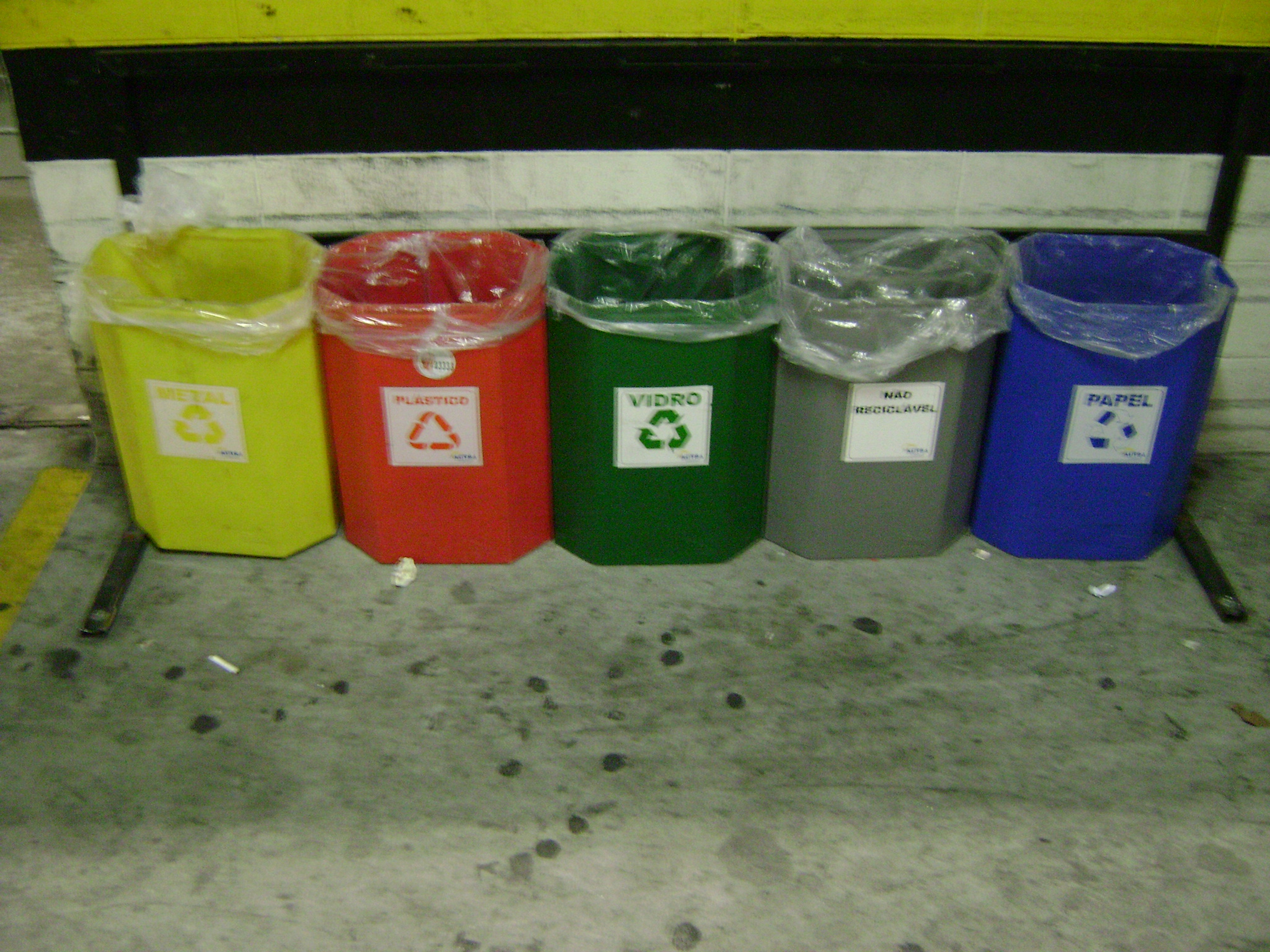 Waste sorting